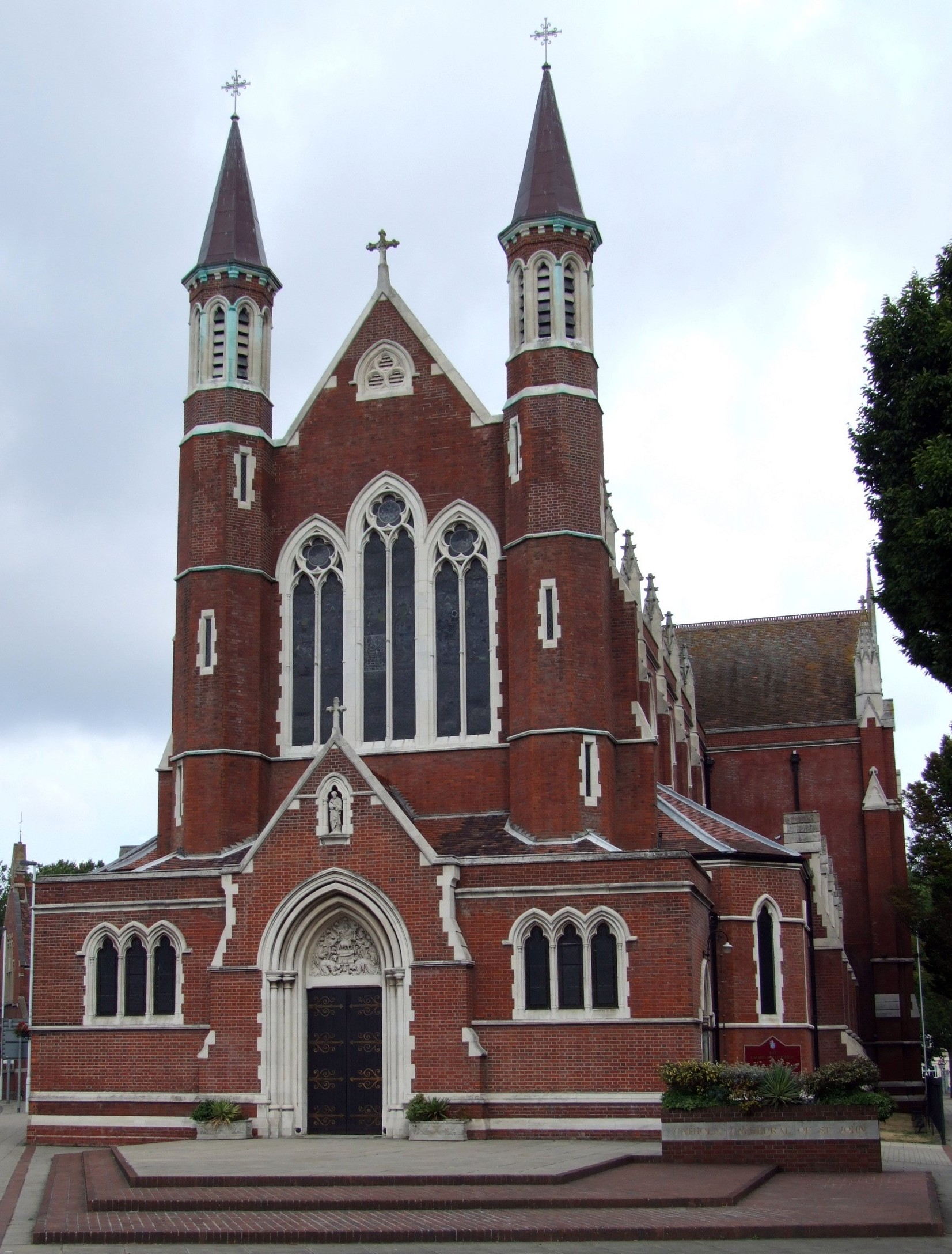 Roman Catholic Cathedral of St John the Evangelist, Portsmouth, England, United-Kingdom